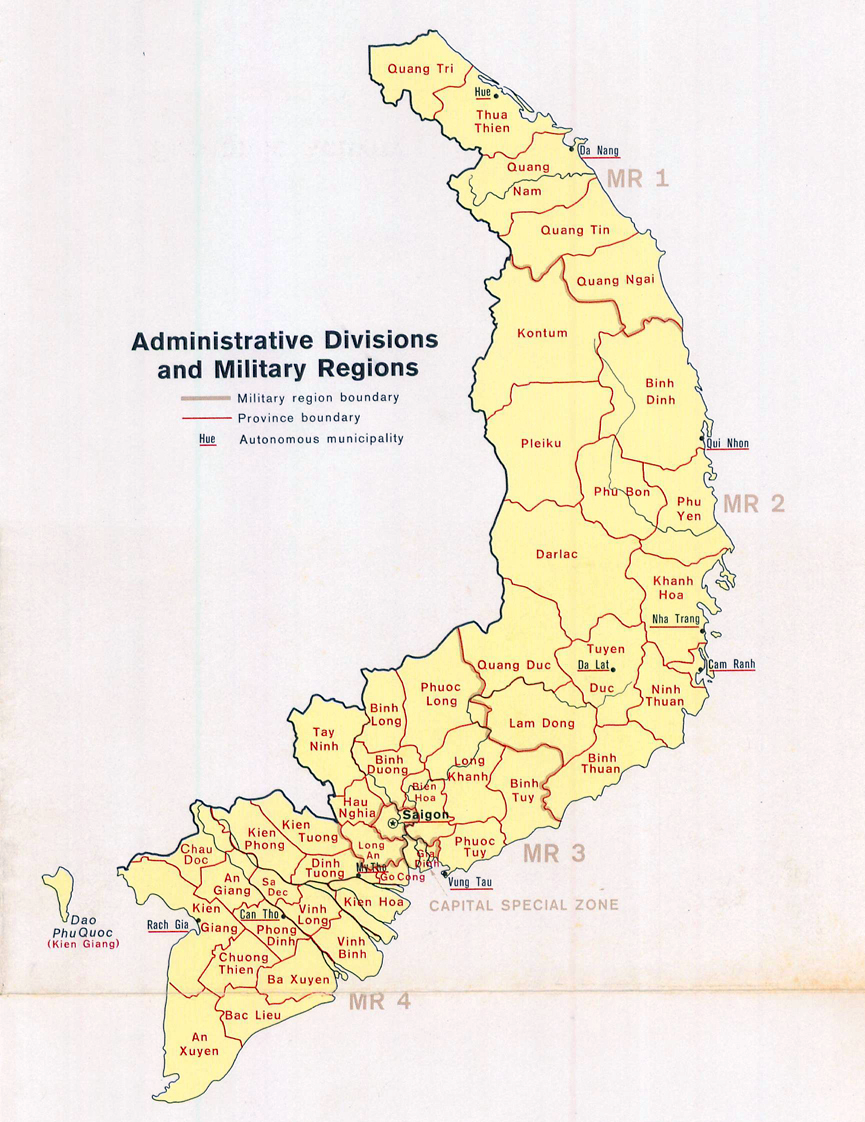 From the Virtual Vietnam Archive ( Produced by the CIA.